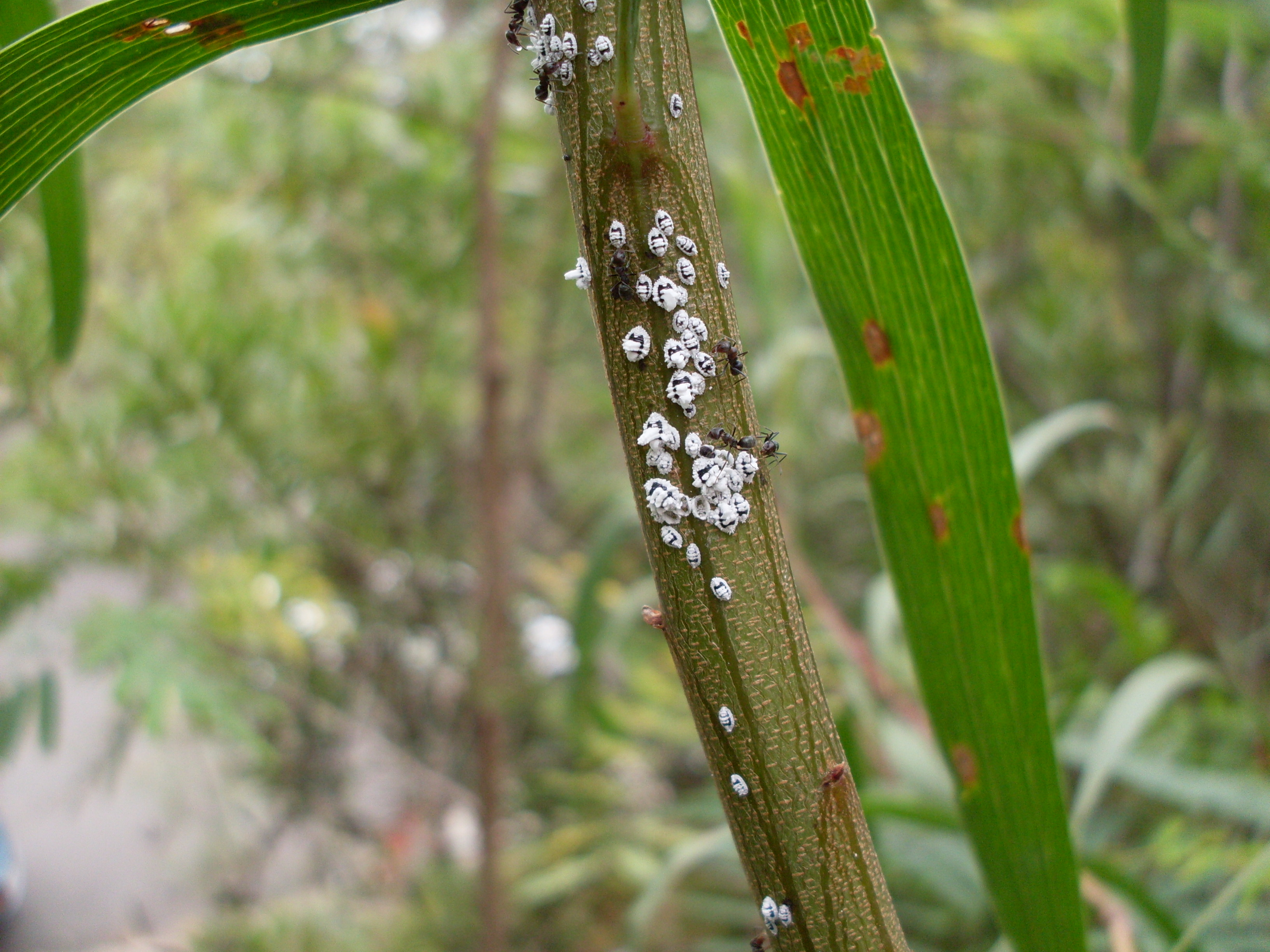 Mealy bugs (Pseudococcidae) sucking on the sap of a Sydney golden wattle (Acacia longifolia). The ants (Iridomyrmex rufoniger) are harvesting the honeydew excreted by the mealy bugs. Leaf marks are probably the result of feeding by the acacia spotting bug (Rayieria tumidiceps). Como NSW Australia, December 2008.